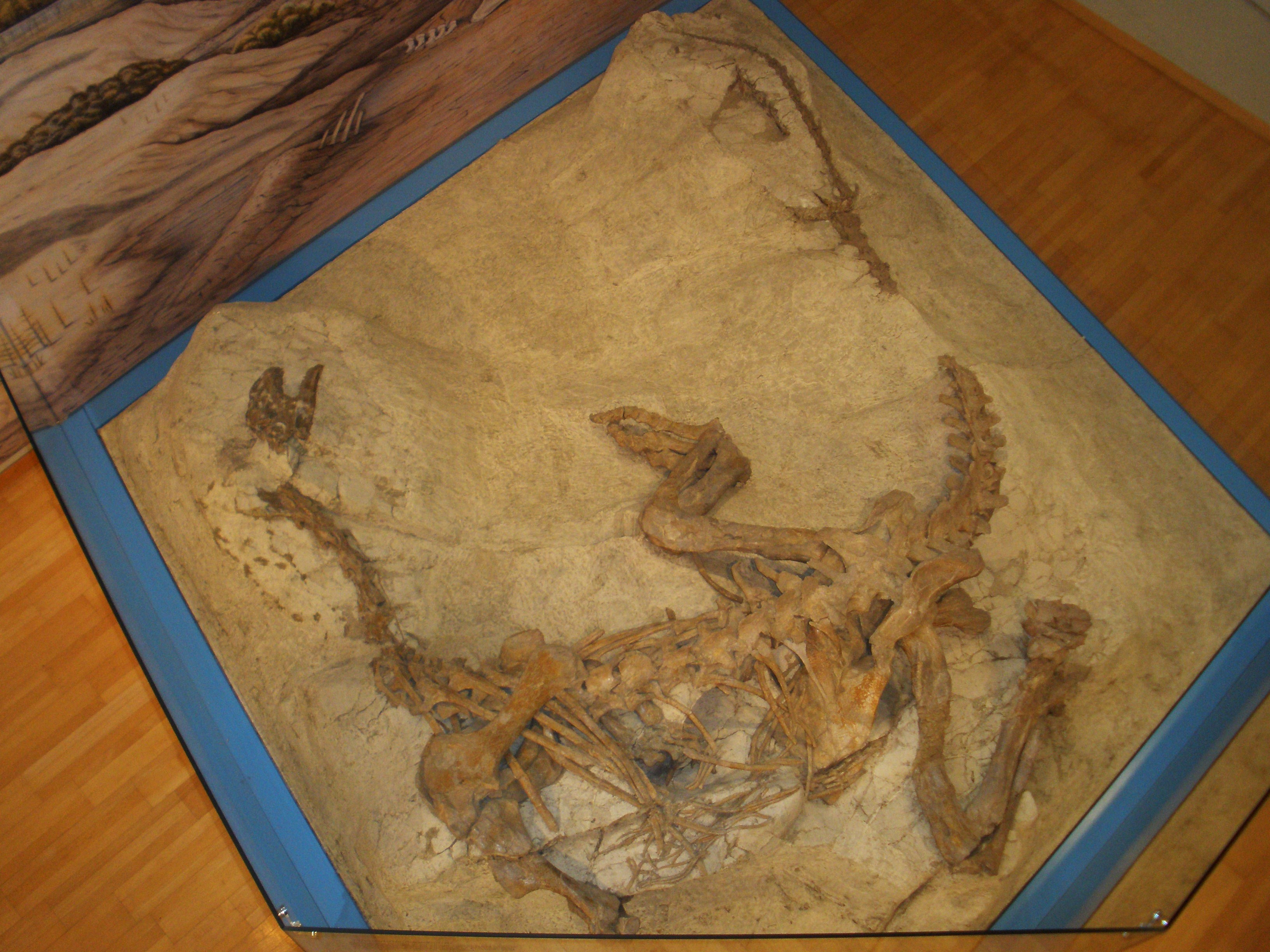 Fossil of Plateosaurus engelhardti, a dinosaur